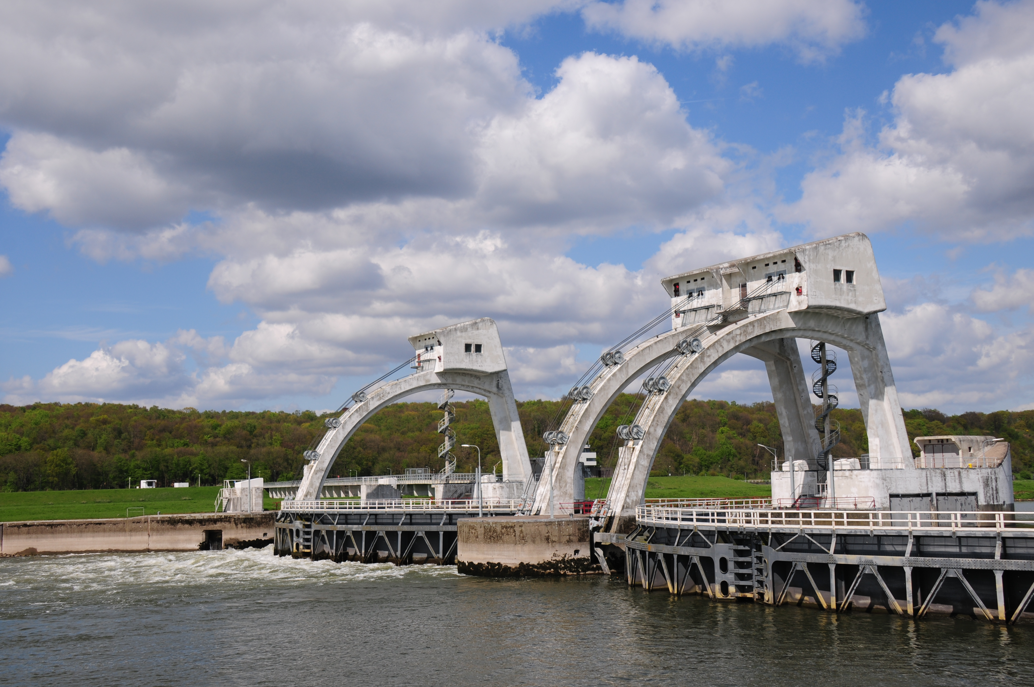 Barrier in the Rhine river near Driel. It need to be painted!!